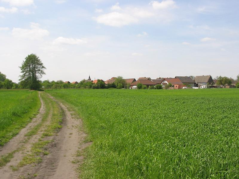 Way from the village Fredersdorf to Belziger Landschaftswiesen and Belzig/Fredersdorfer Bach. Fredersdorf is a part of the town Belzig in Brandenburg, Germany.